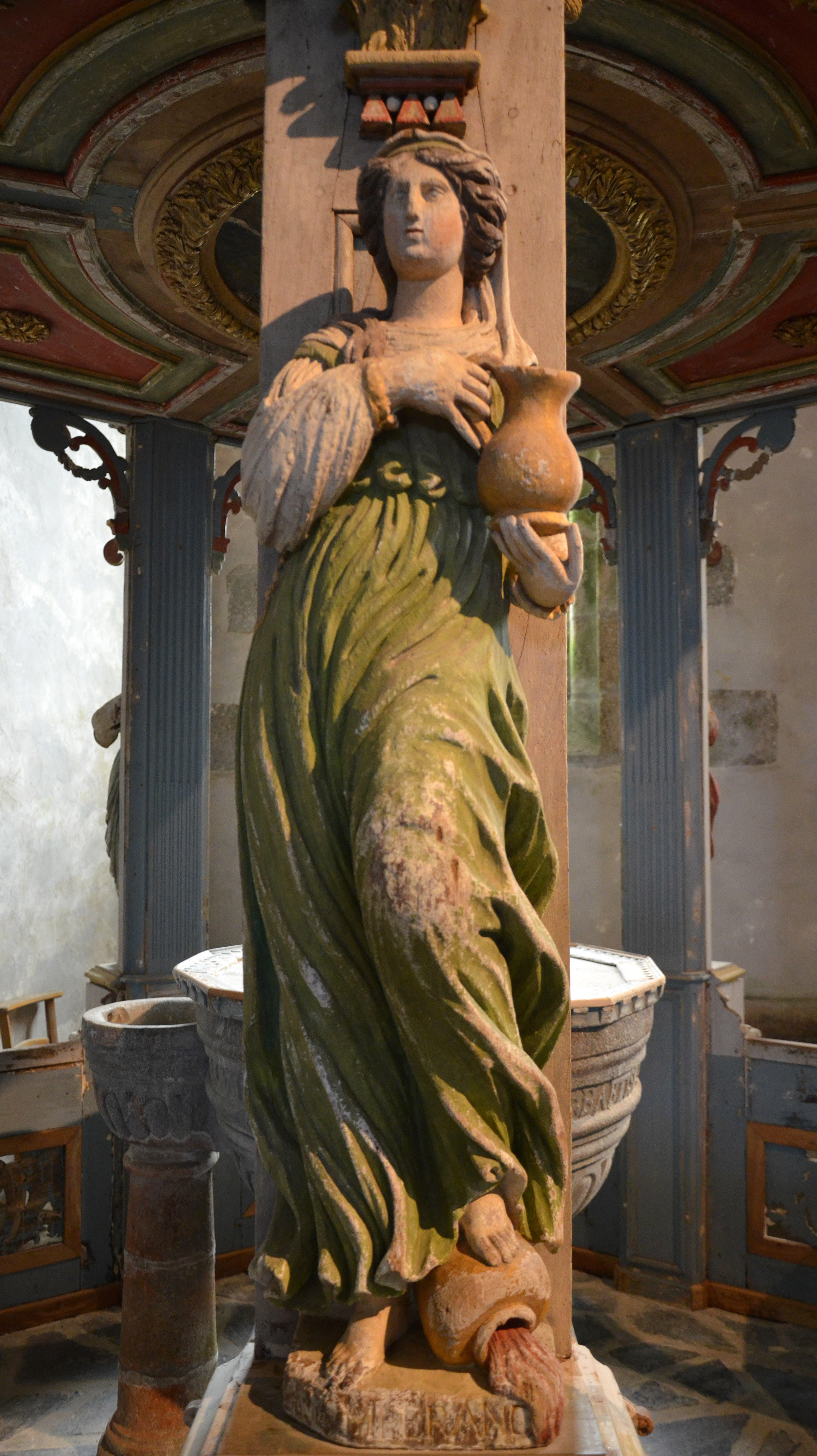 Sculpture of temperance, 1683 ; in of the "church of Saint-Derrien" (in common Commana, located in Brittany in western France). The south transept houses the "altar of the Five Wounds." At the bottom of the church, a baptistery basin of stone is topped by a high dai including wood carvings decorated with feminine virtues (temperance, justice ...).